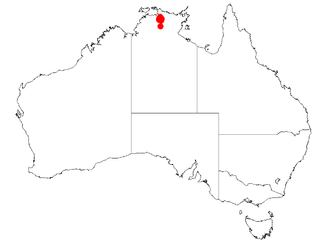 Acacia multistipulosa Occurrence data from Australasian Virtual Herbarium downloaded from on 8 December 2018